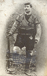 Bulgarian revolutionary Yovanche Popantov from IMARO.